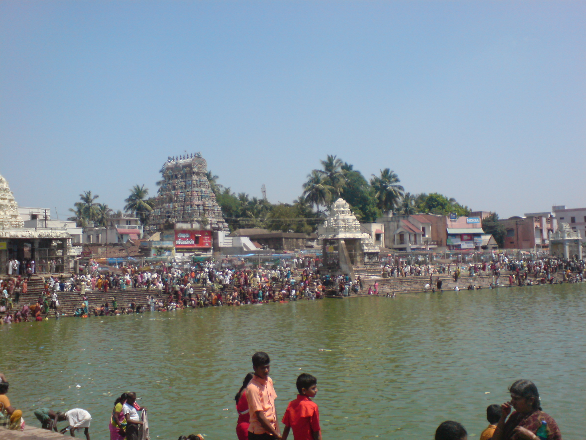 Hindu temple, kumbakonam, masimagam